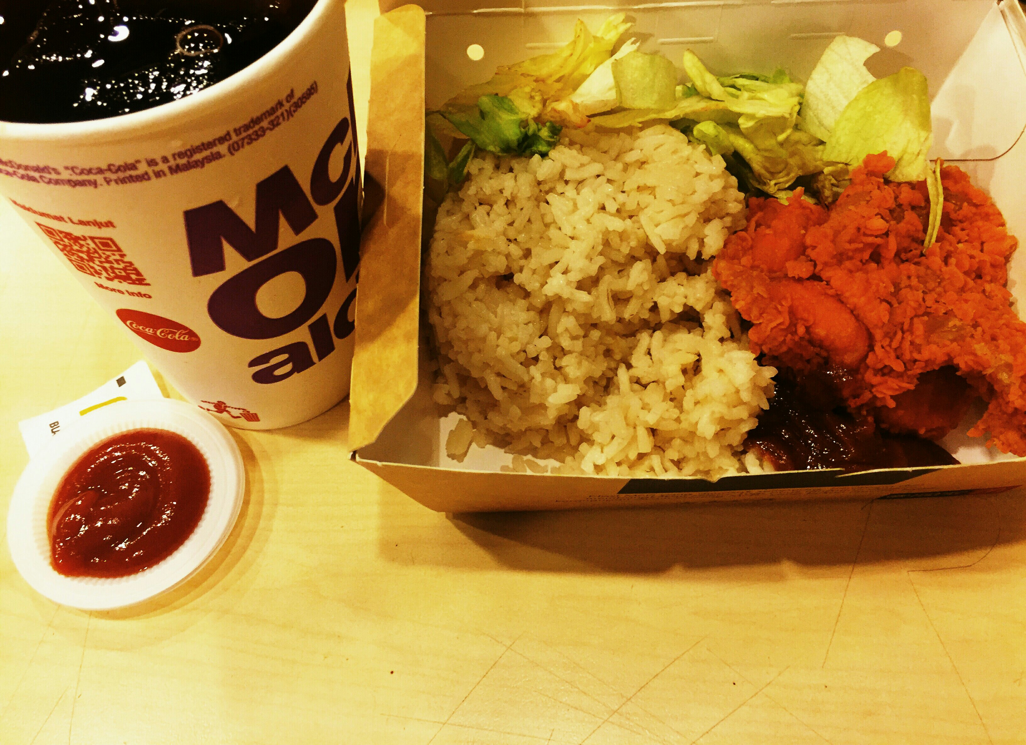 Nasi McD, a rice-based menu for McDonalds Malaysia.